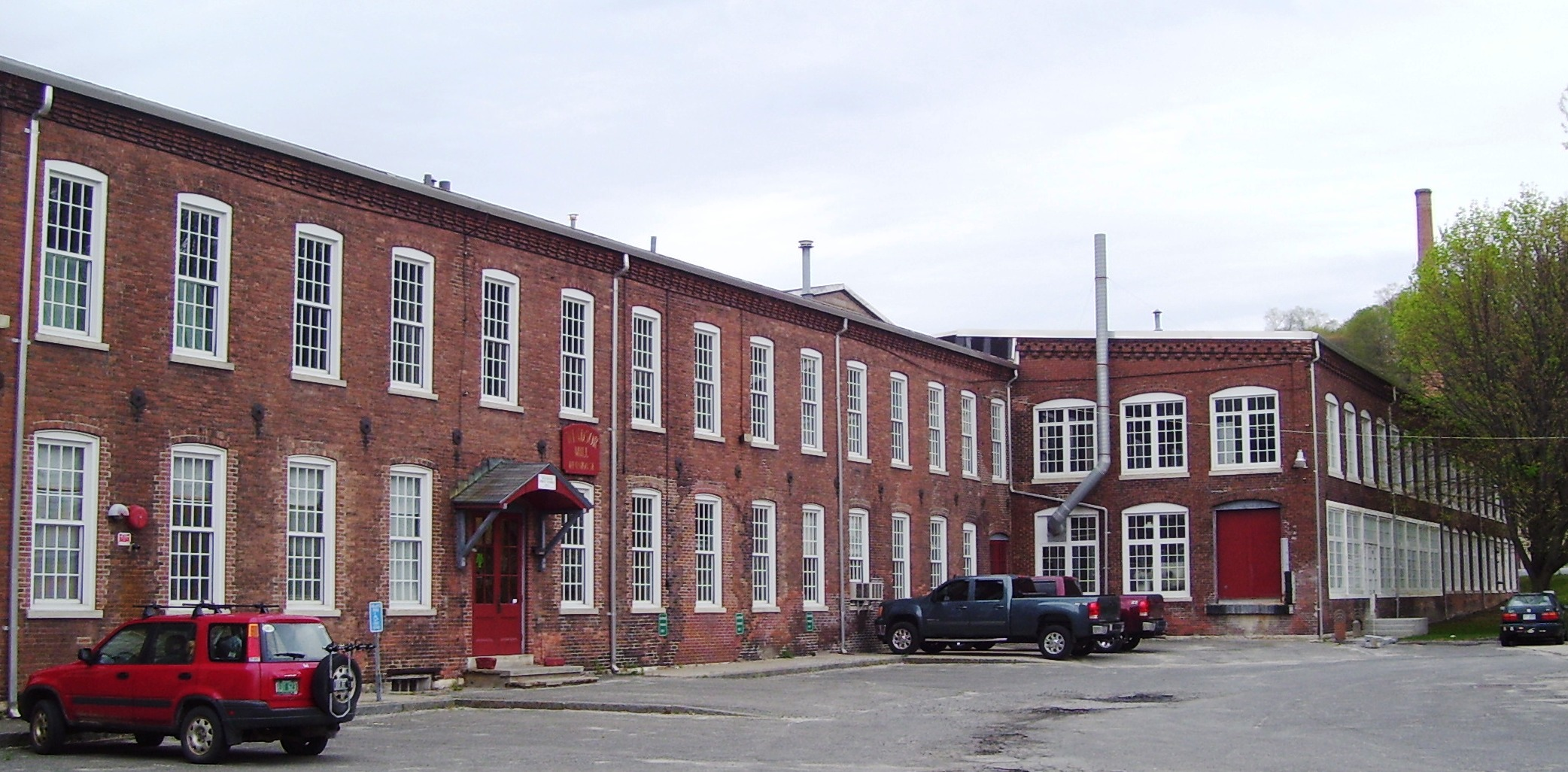 The Windsor Print Works at 121 Union Street in North Adams, Massachusetts was founded in 1829, the first print works in Western Massachusetts. It closed as a mill in 1956, when the company that owned it at the time folded. The main building was converted into a center for arts and crafts in 1973. Owned by the city of North Admas since the 1980s, it is used for light manufacturing and arts-related businesses, including galleries. (Source: "History of the Mills" on the North Adams Open Studios website)